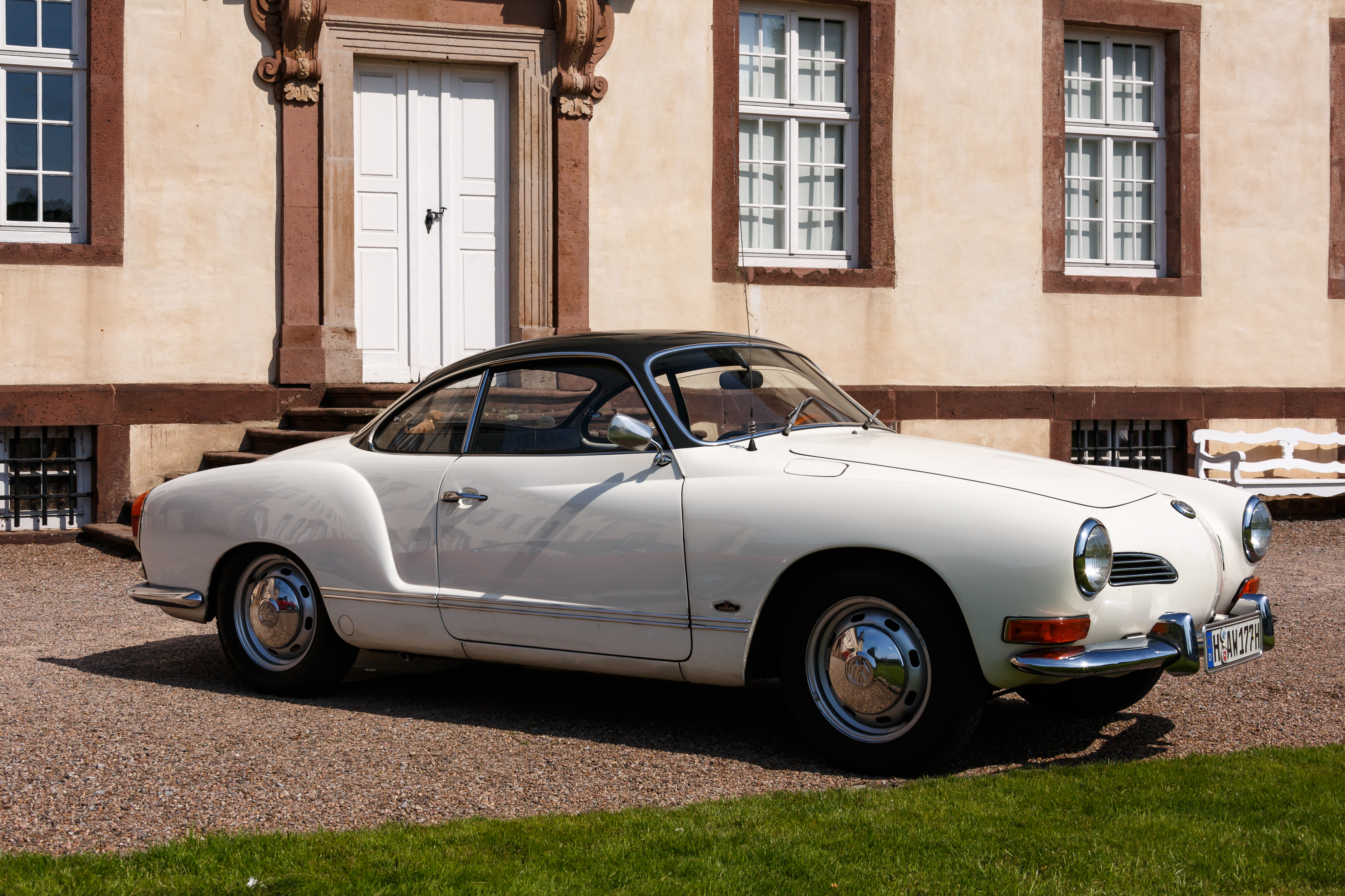 Höxter, Germany: A Volkswagen Karmann Ghia in front of Castle Corvey